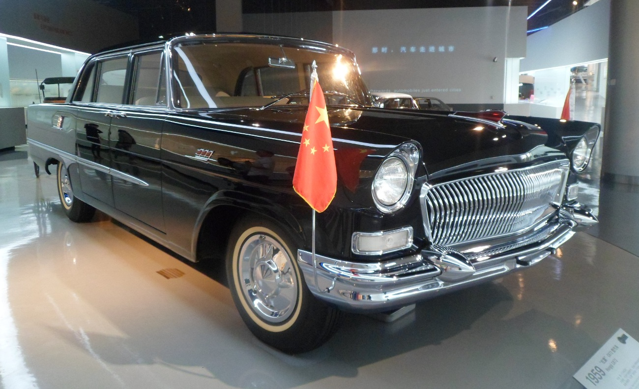 1959 Hongqi CA72 photographed at the Shanghai Automobile Museum, Anting, China.